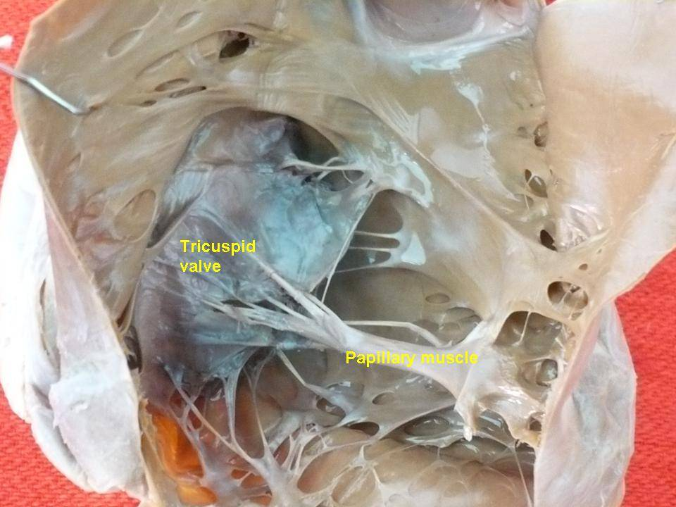 Anatomical dissections